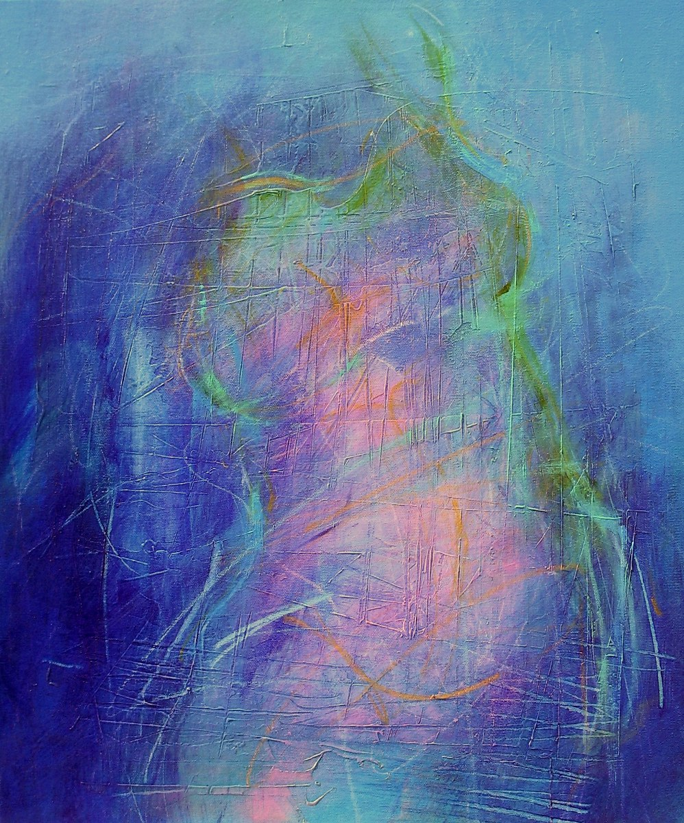 The Dress painting by Antoni Karwowski.